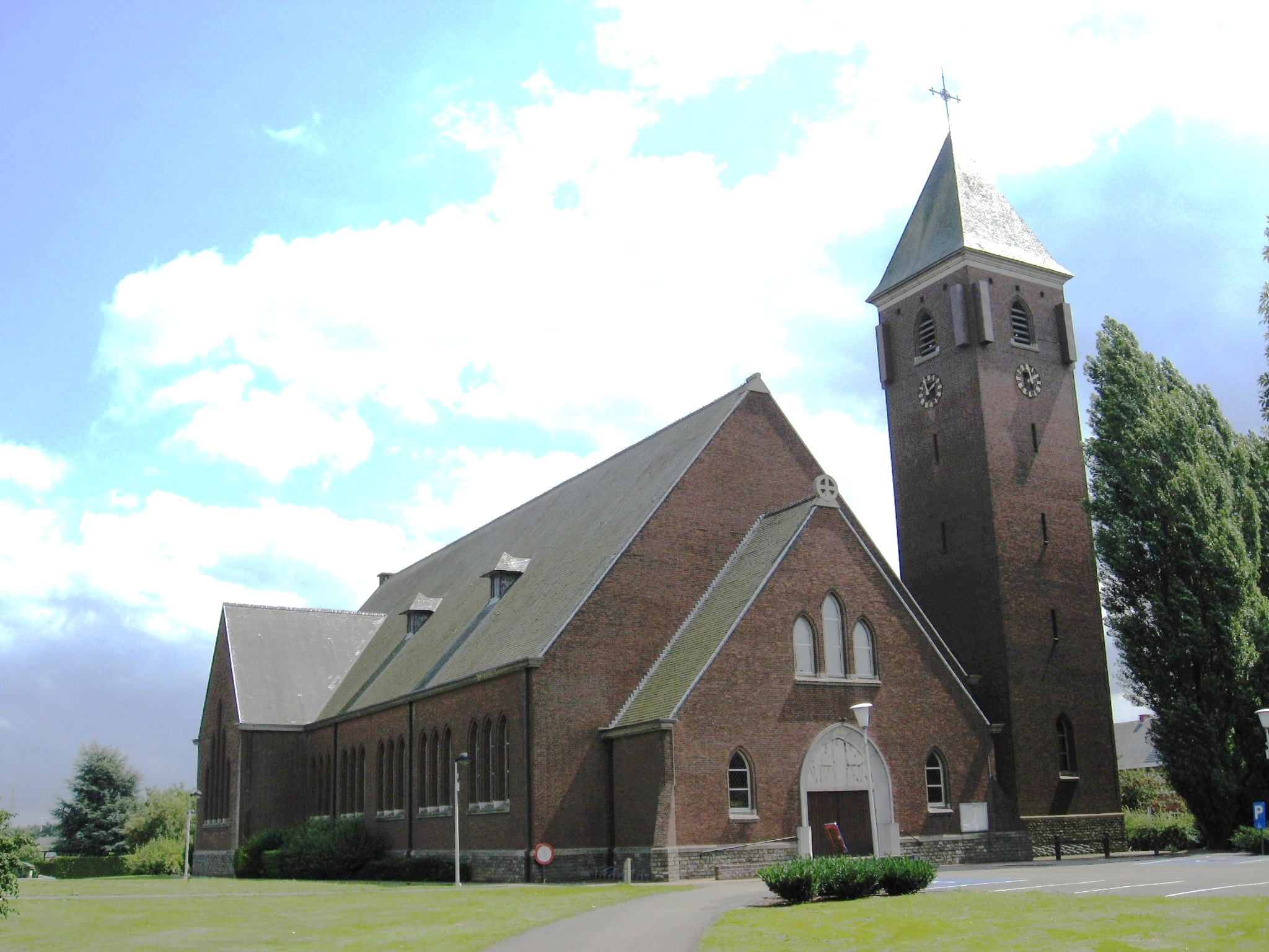 Saint George's church in Alken (Belgium)